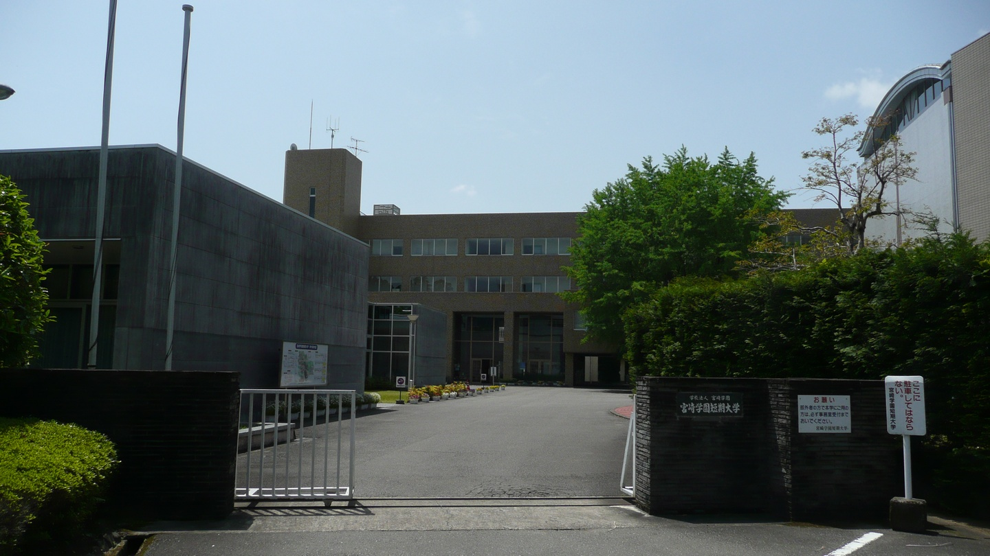 Miyazaki Gakuen Junior College